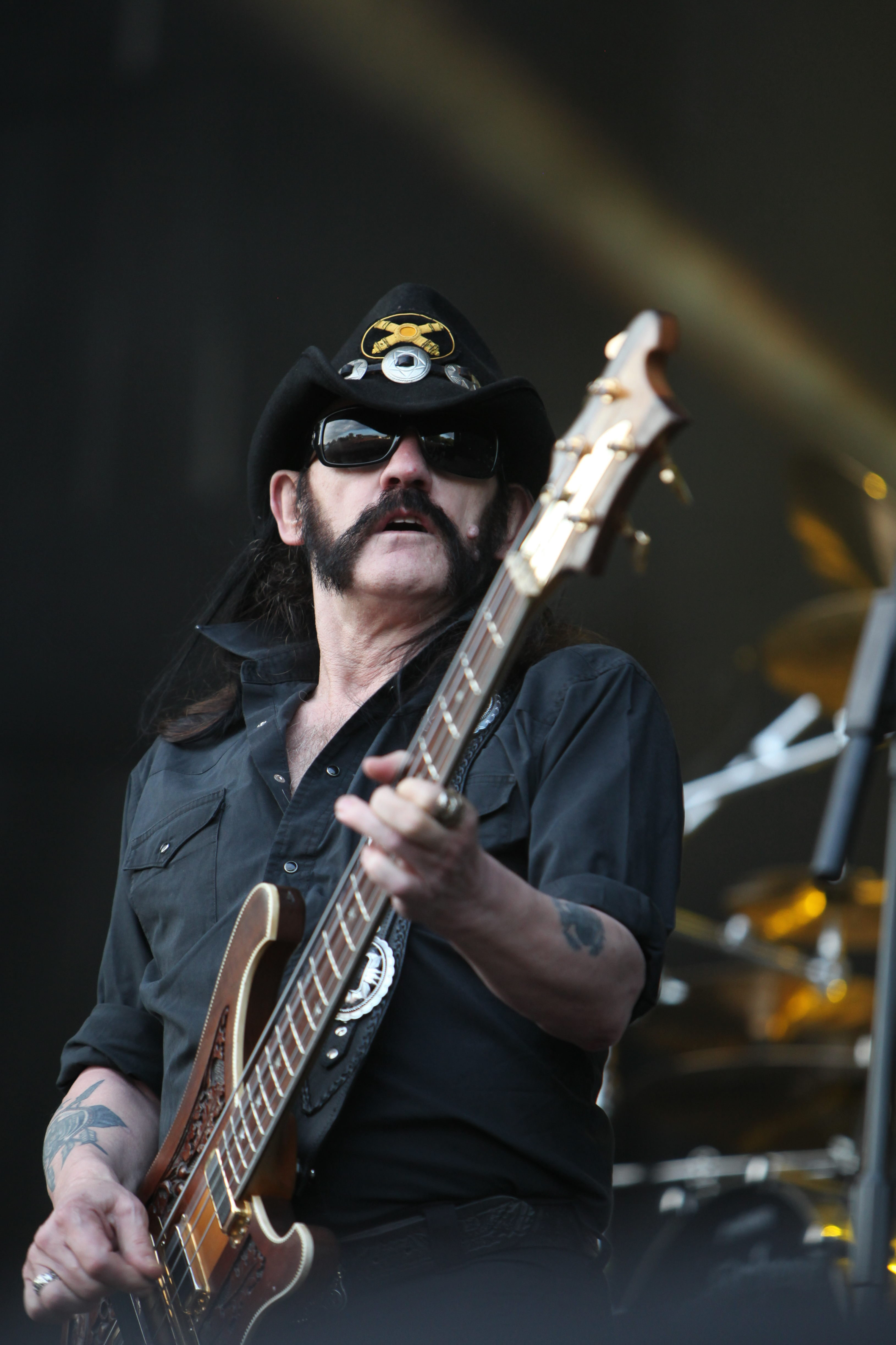 Motörhead at the Eurockéennes de Belfort 2011 The making of this document was supported by Wikimedia CH. (Submit your project!) For all the files concerned, please see the category Supported by Wikimedia CH.